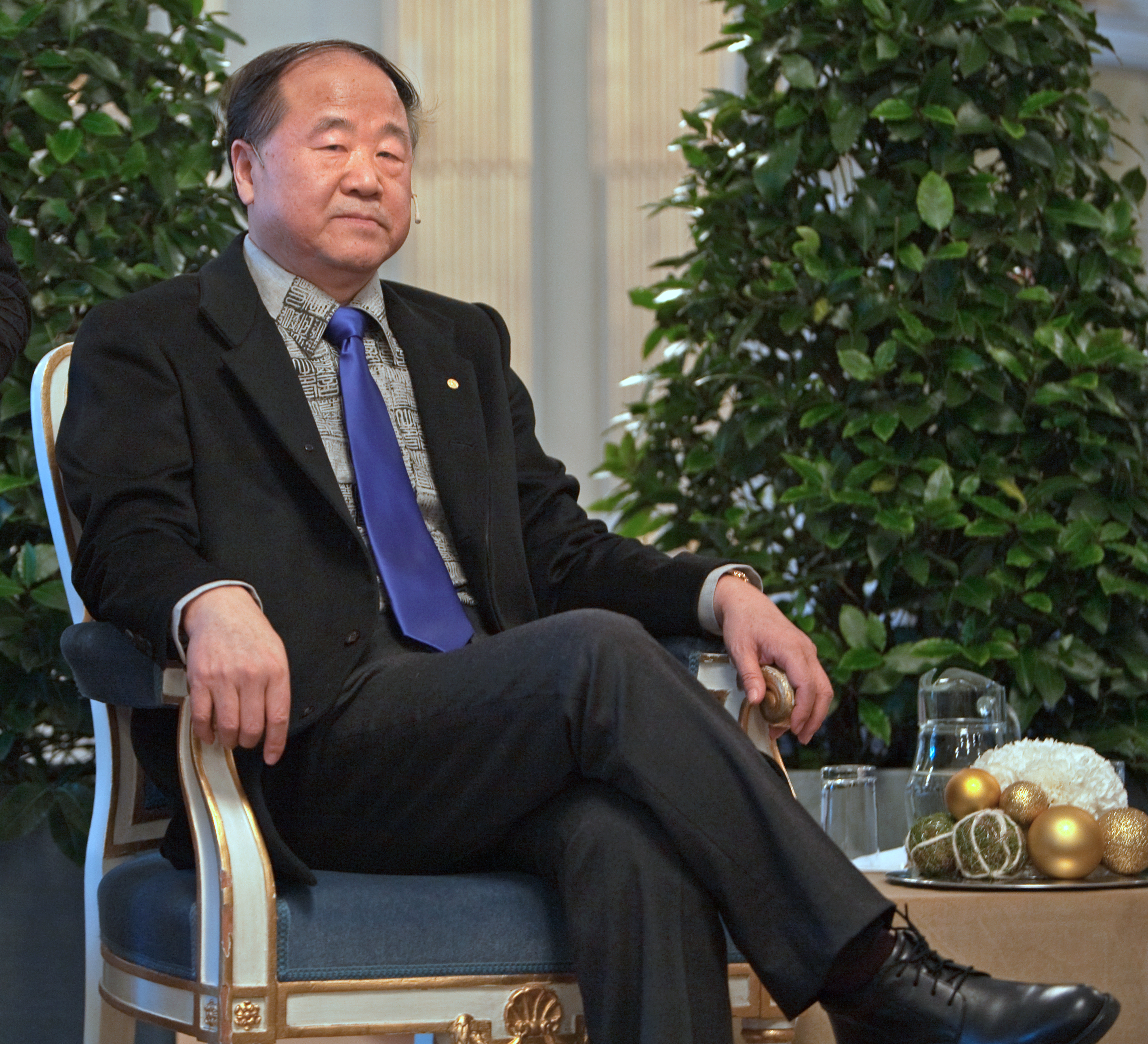 Mo Yan, Nobel Prize winner in literature 2012